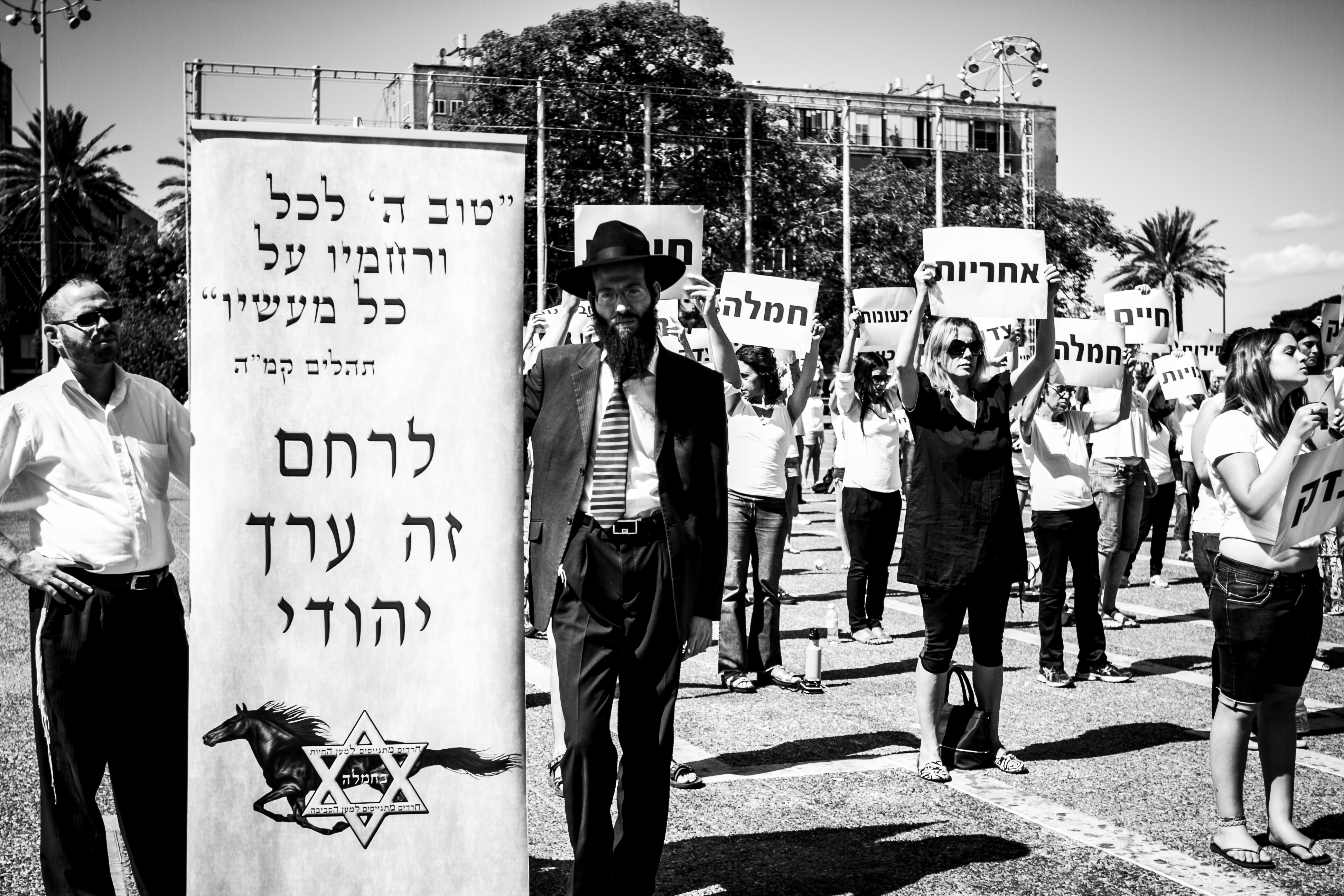 VEGISRAEL260